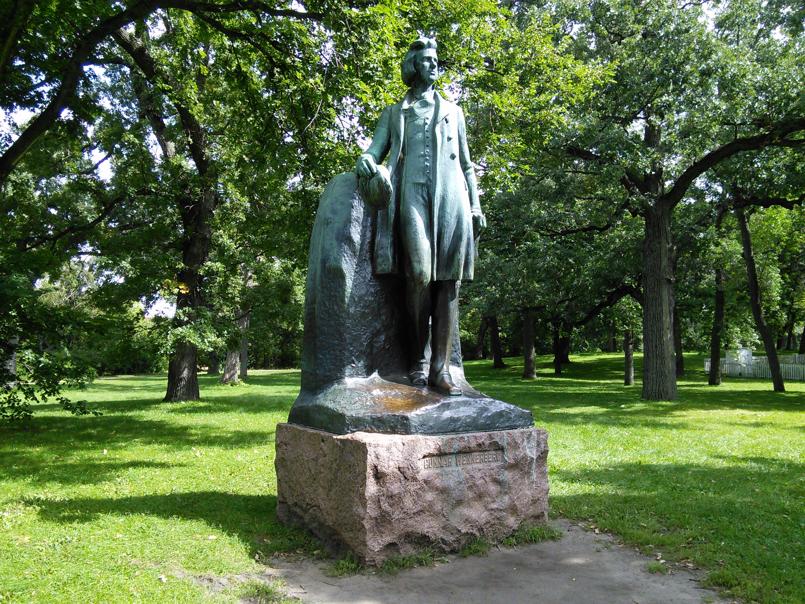 Statue of Swedish poet Gunnar Wennerberg in Minnehaha Park, in Minneapolis, Minnesota.